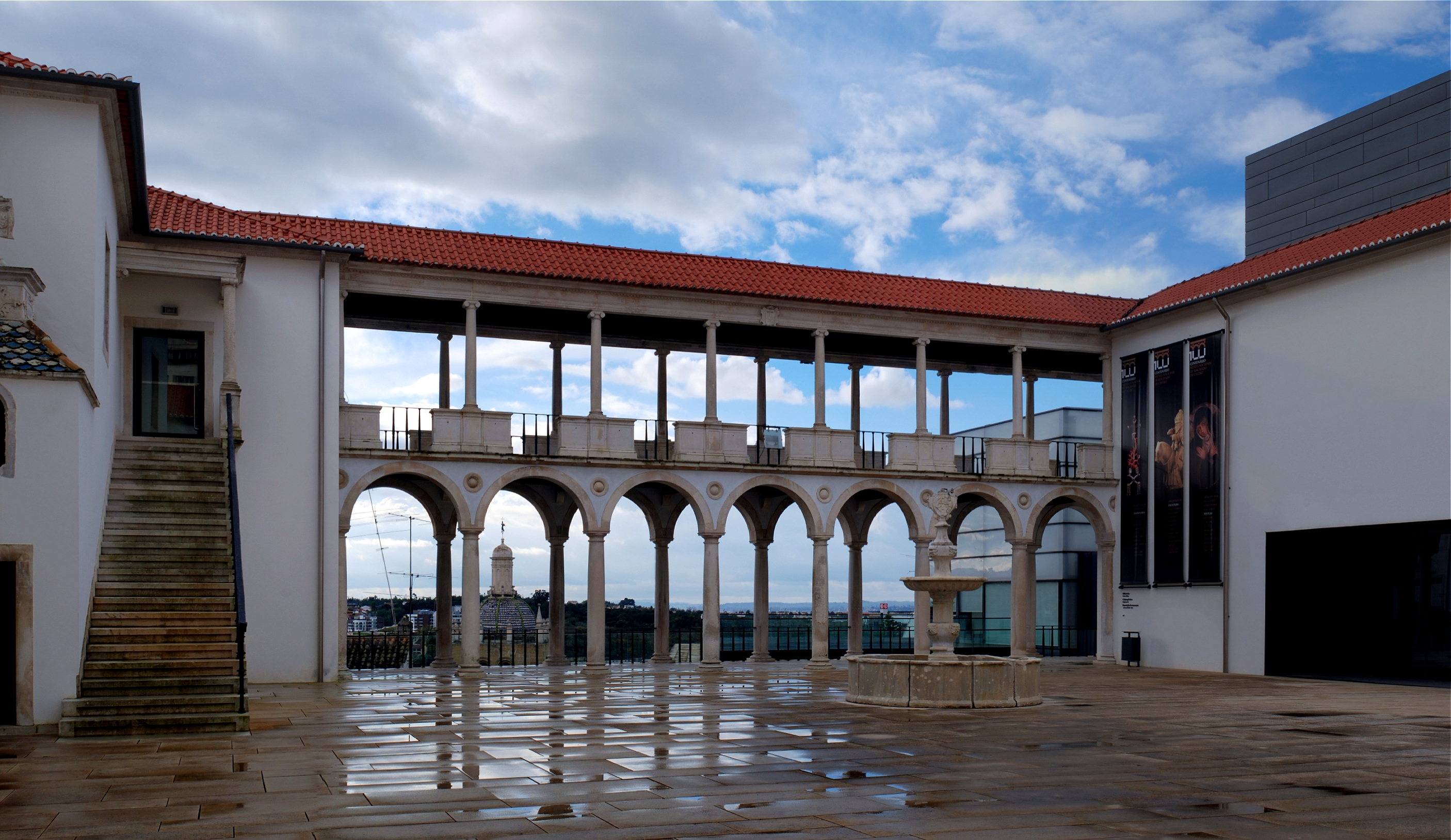 National Museum Machado de Castro, Coimbra (Portugal). detail of the courtyard.